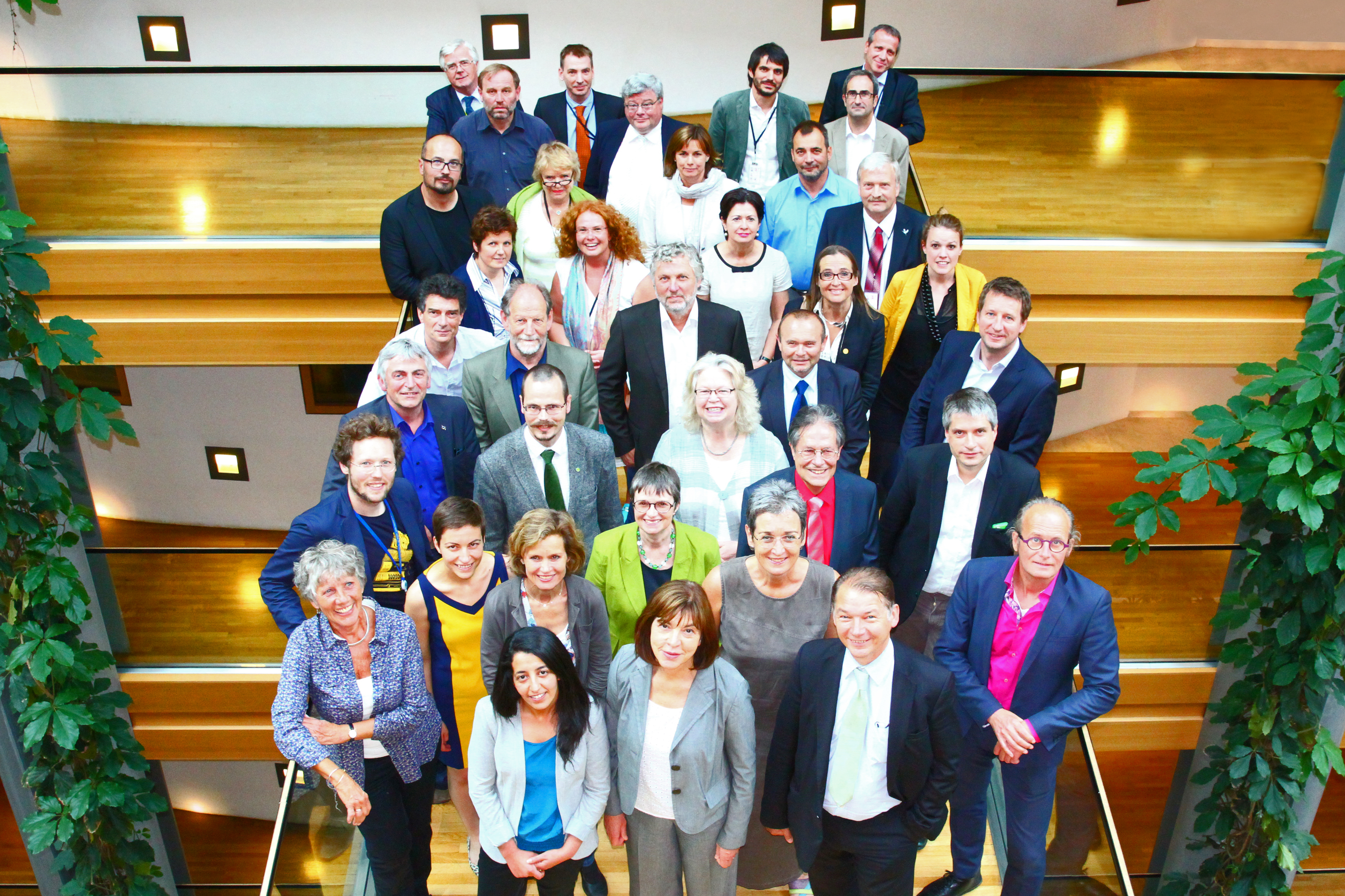 Members of the Greens/EFA group pose outside of their group meeting room in Strabourg during the first plenary session of the legislature. See all of the Greens/EFA members at